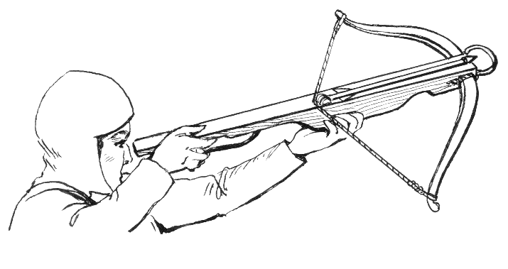 line art example of a crossbow.